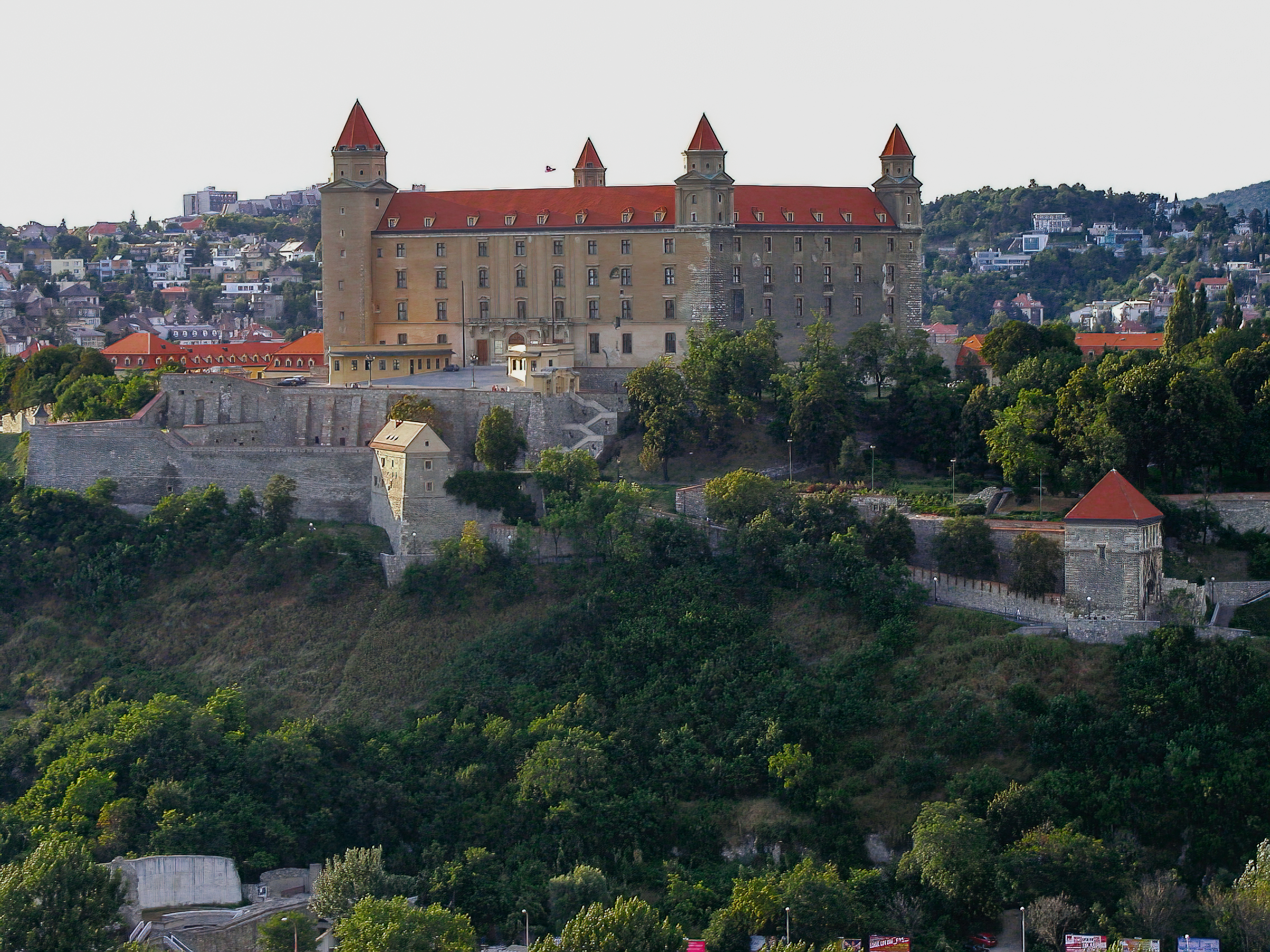 Bratislava Castel, View form UFO-restaurant